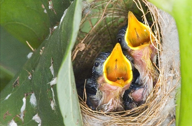 Manoj & Satish are veterans at nature photography. I was curious when I heard about these chicks and tagged along with them. Was lucky enough to get this "Macro Shot" of chicks.